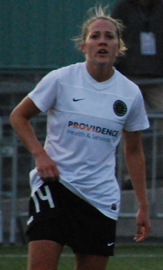 Becky Edwards of Portland Thorns at Starfire Stadium in Tukwila, Washington on May 25, 2013